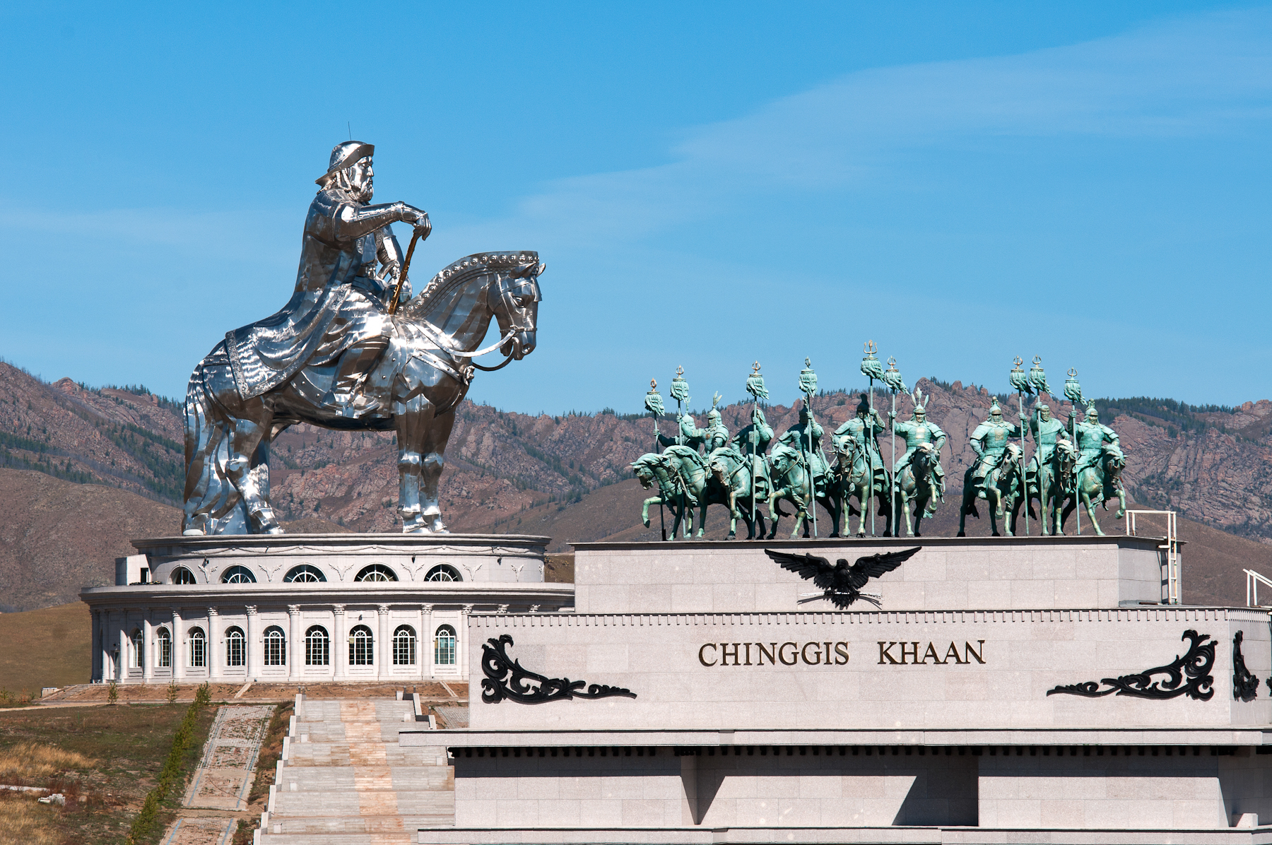 Chinggis Khaan statue Complex